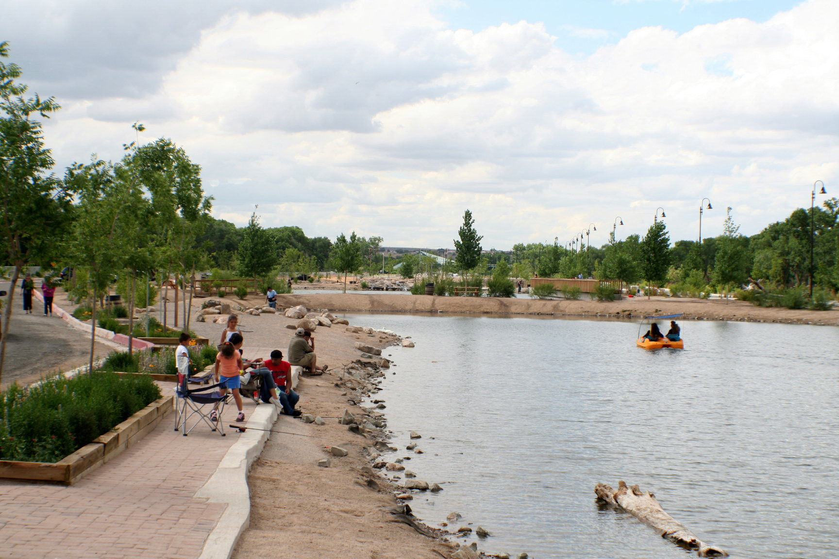 Enjoying the water on Tingley Beach in downtown Albuquerque, New Mexico, along the Rio Grande river.